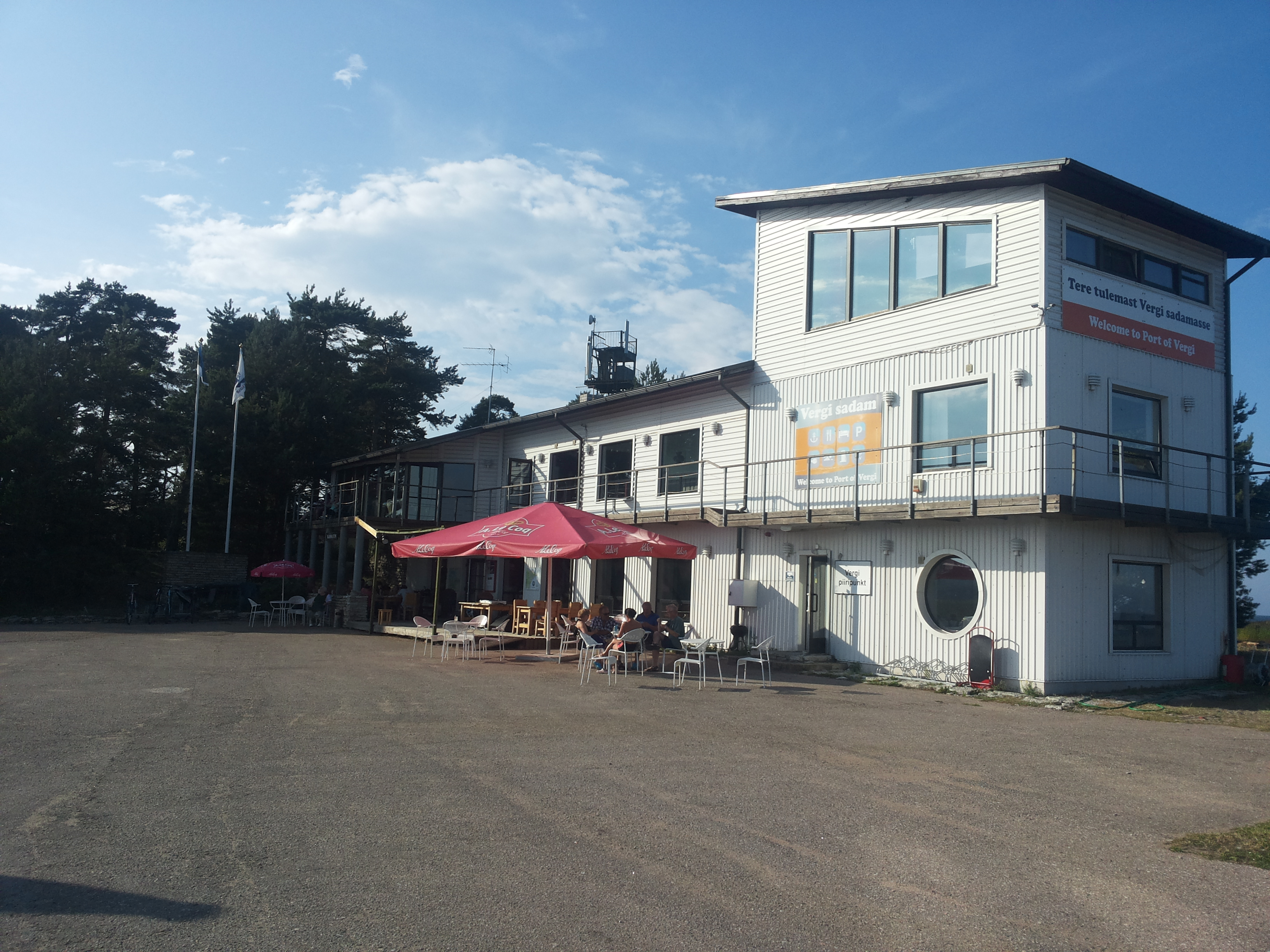 Port building in Vergi yacht harbour